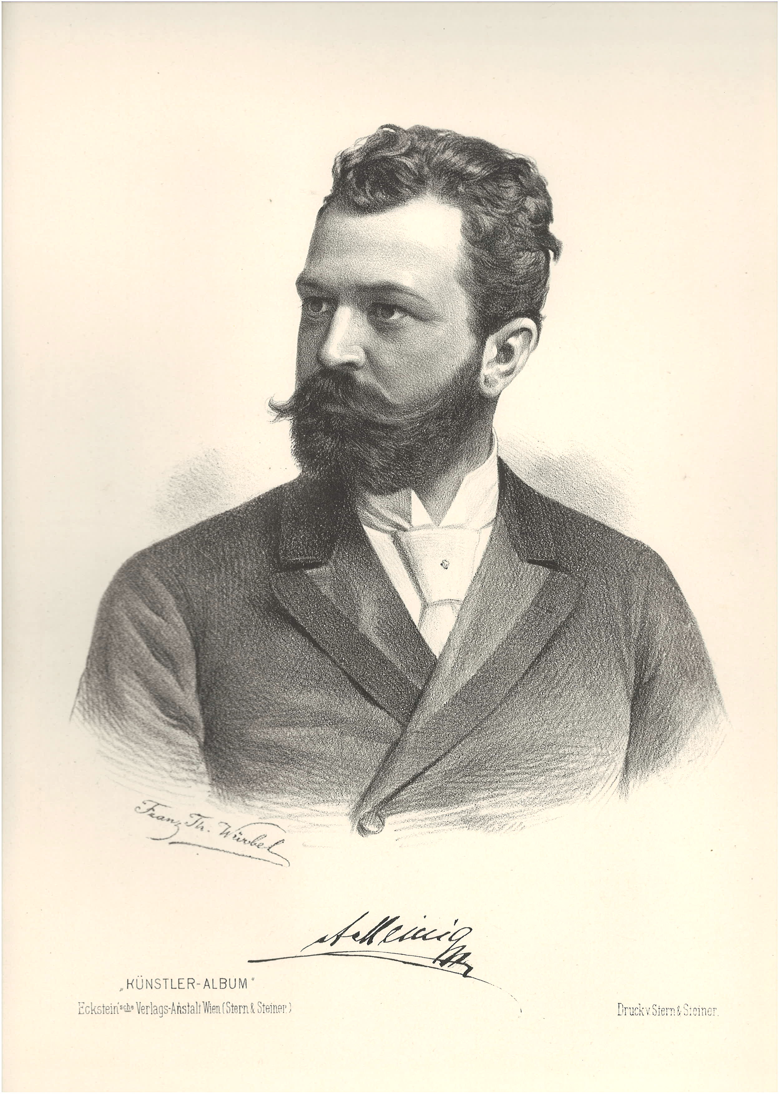 Portrait of the architect Arthur Meinig (1853-1904), lithograph by F. Würbel